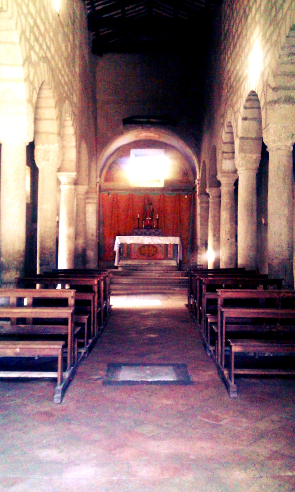 Interno (Chiesa di Santa Maria dei Lumi, Bassano in Teverina, Viterbo).